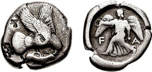 Stater, 452-432 BC, Olympia. 82-87th Olympiad